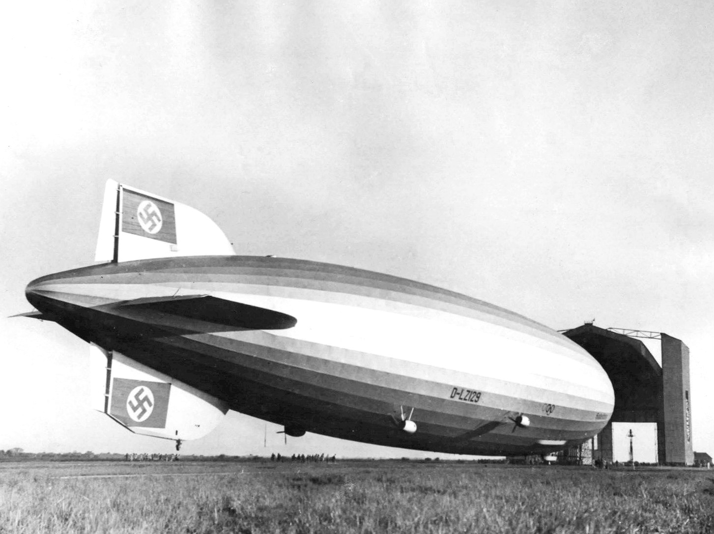 Photo of the Hindenburg entering the airship hangar at Santa Cruz, Rio De Janiero, Brazil, following its first transatlantic crossing in April of 1936. Note the temporary tail fin repair after the fin was damaged during a propaganda flight in Germany on March 26, 1936.